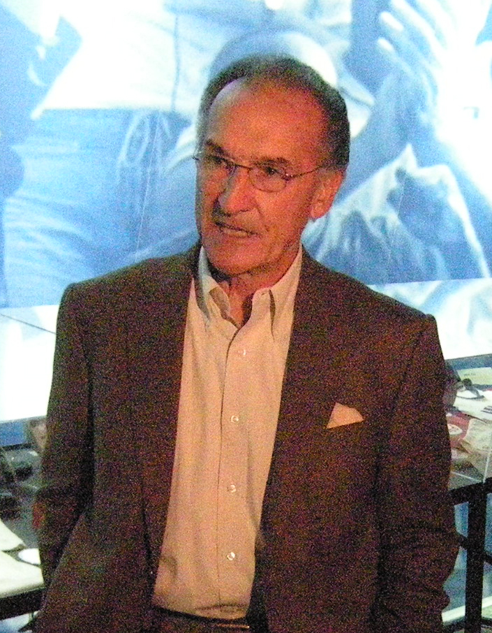 Gino Cappelletti, former American college and Professional Football player.